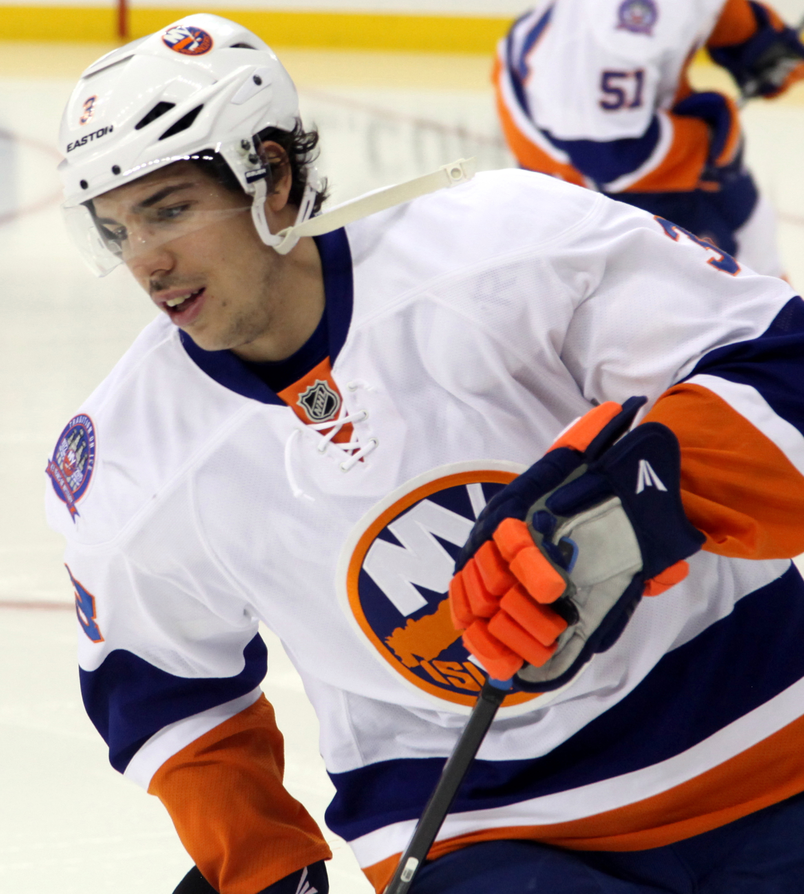 Hamonic in January 2015.